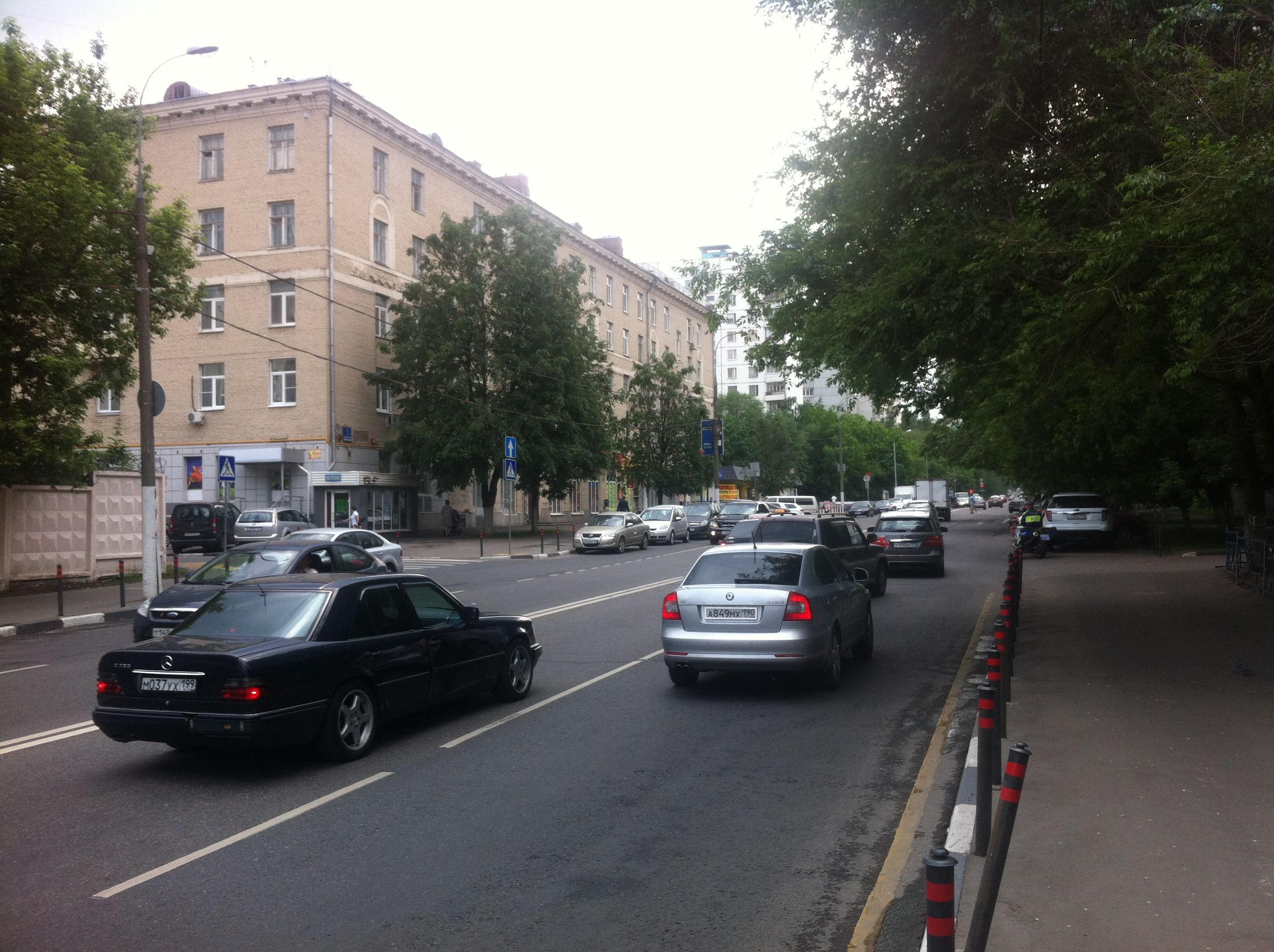 Azovskaya Ulitsa (street) in Moscow